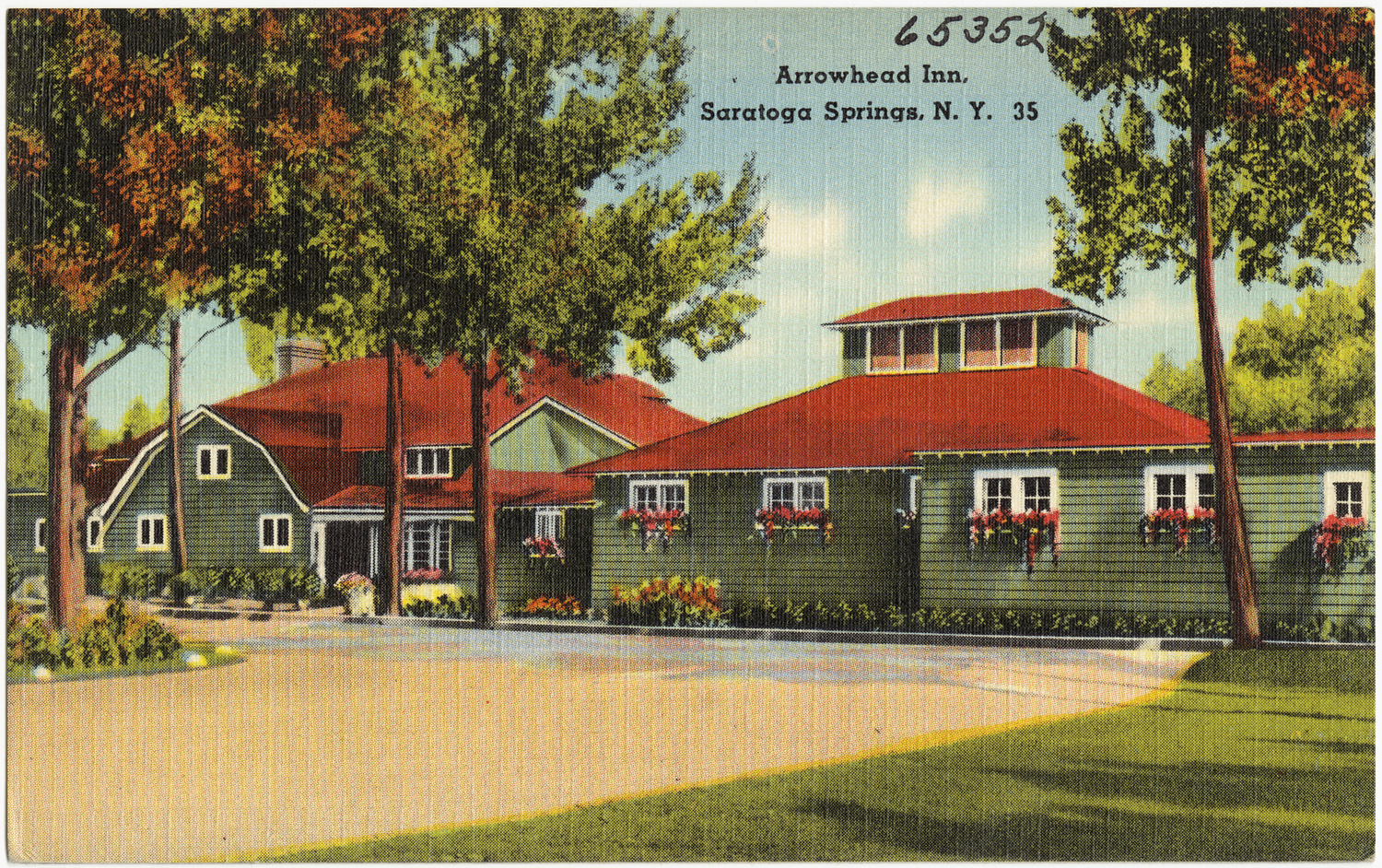 Postcard showing the Arrowhead Inn in Saratoga Springs, New York.